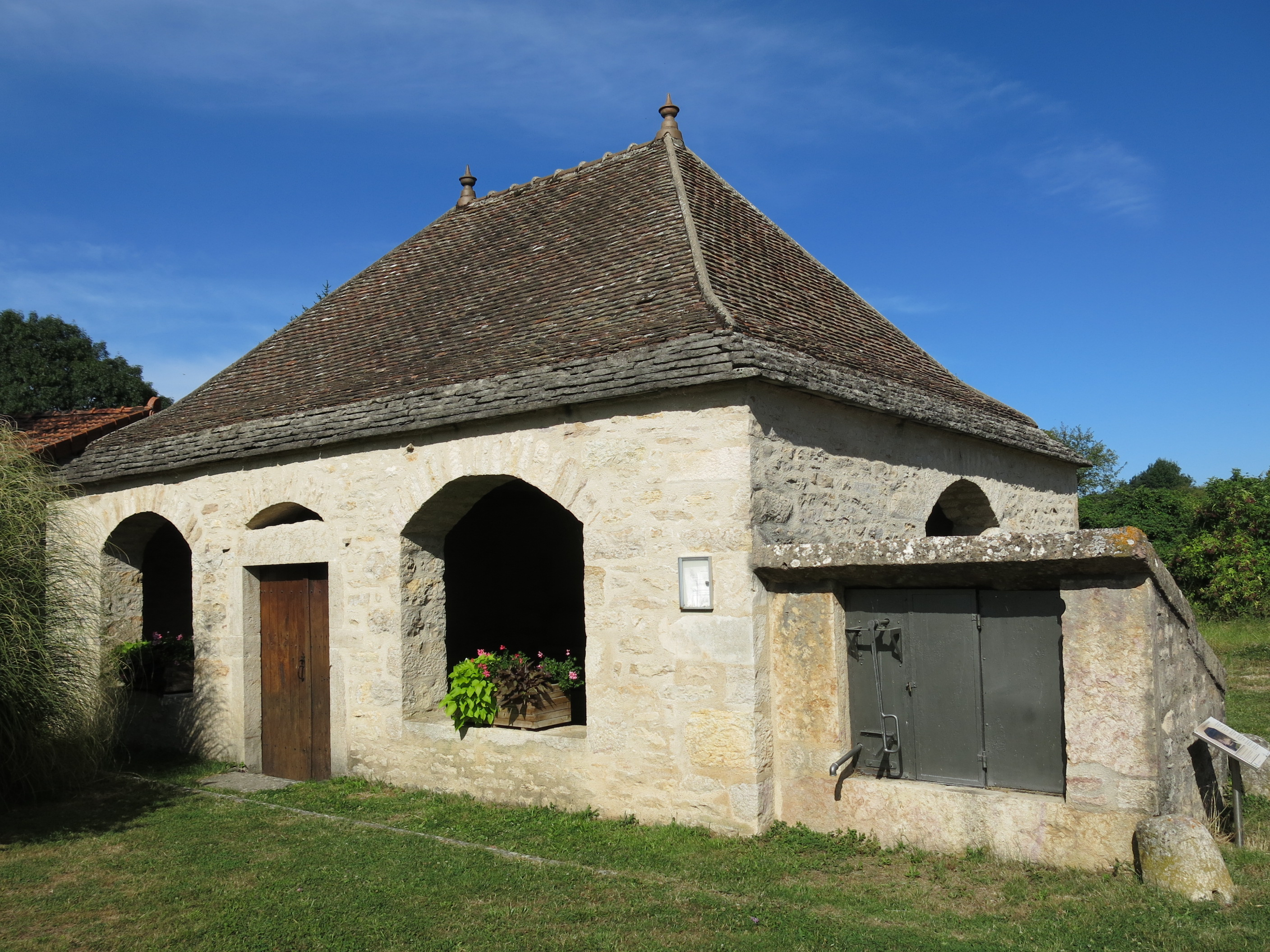 Wash house de Sermaisey (Laives, Saône-et-Loire, France)